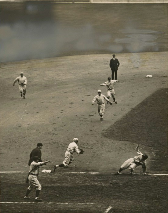 Cleveland Indians player Joe Sewell caught between 3rd and Home during the first game of the 1920 World Series.